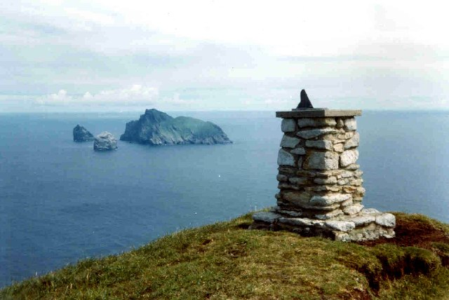 Stac an Armin (left), Stac Lee (middle) and Boreray (right) from Conachair in Hirta, St Kilda